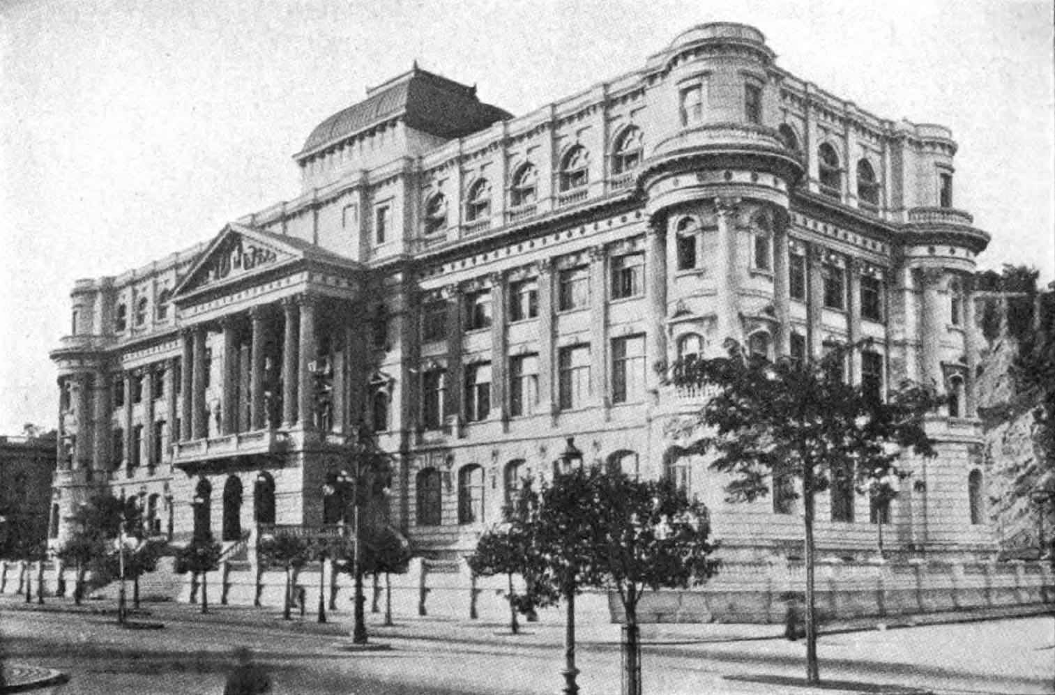 Photograph of the Biblioteca Nacional do Brasil, Rio de Janeiro